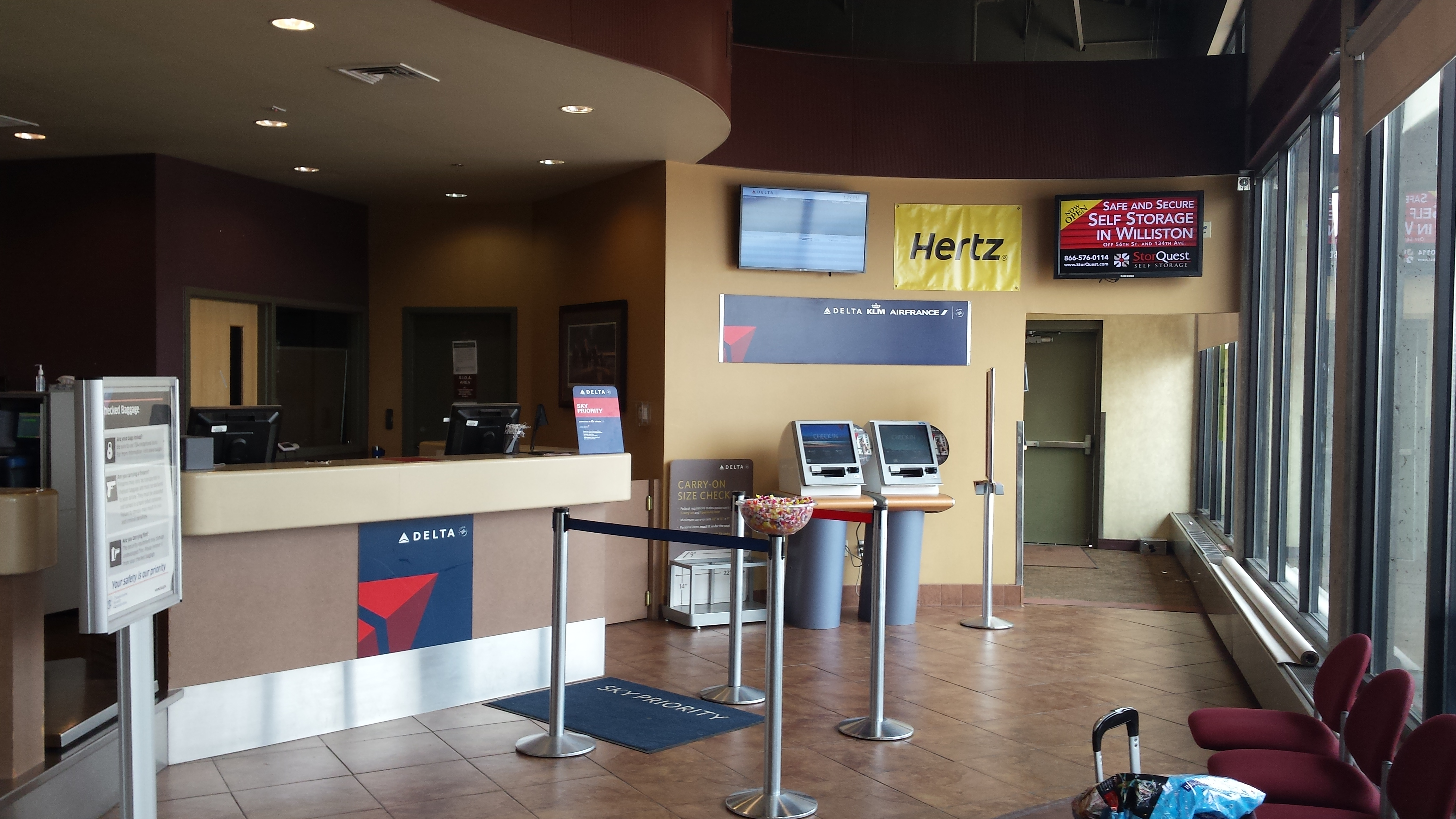 Delta Air Lines check-in counters at Sloulin Field International Airport, Williston, North Dakota.